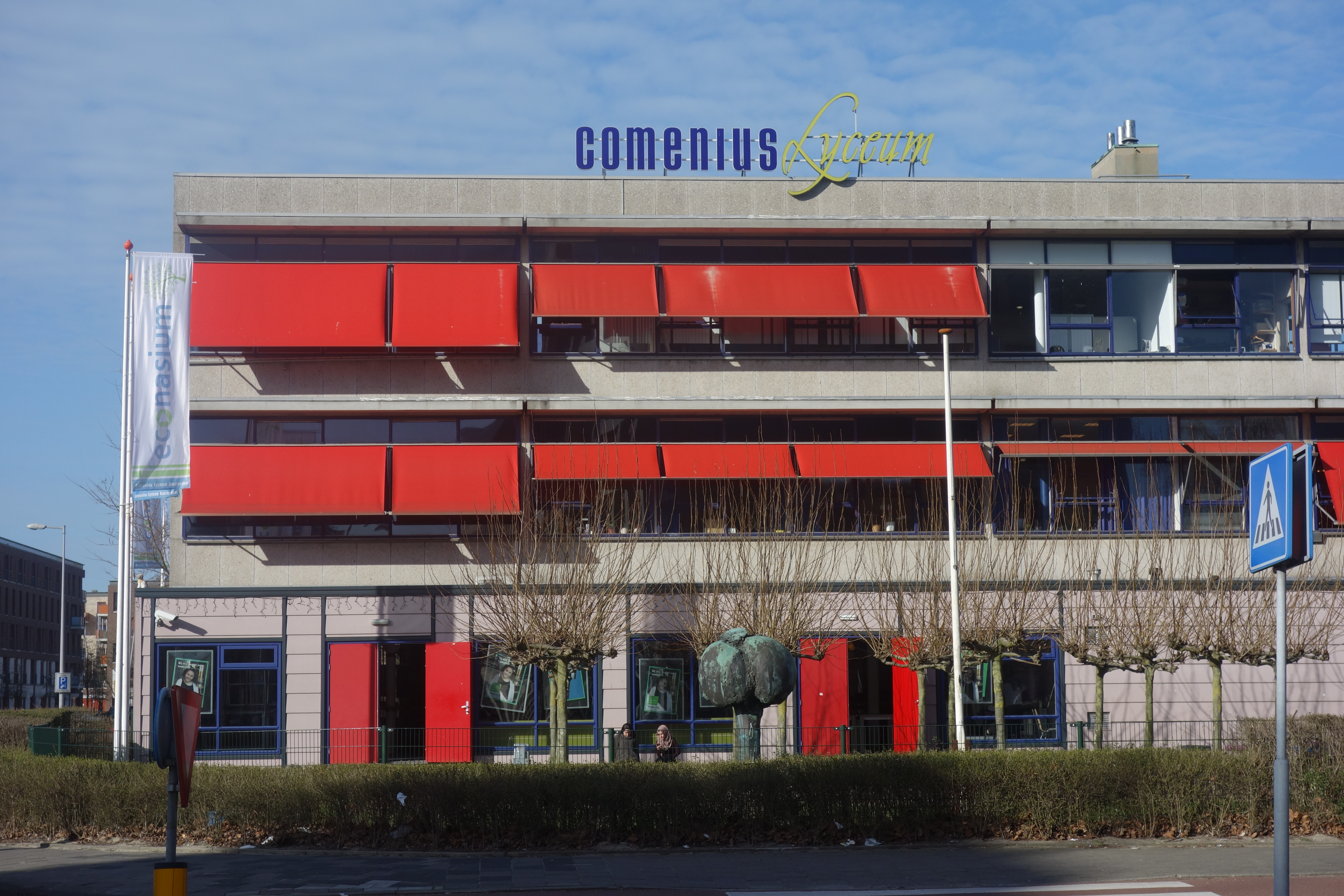 Comenius Lyceum, Derkinderenstraat 44, Amsterdam (the Netherlands). In front of the building is a sculpture by an unknown artist.